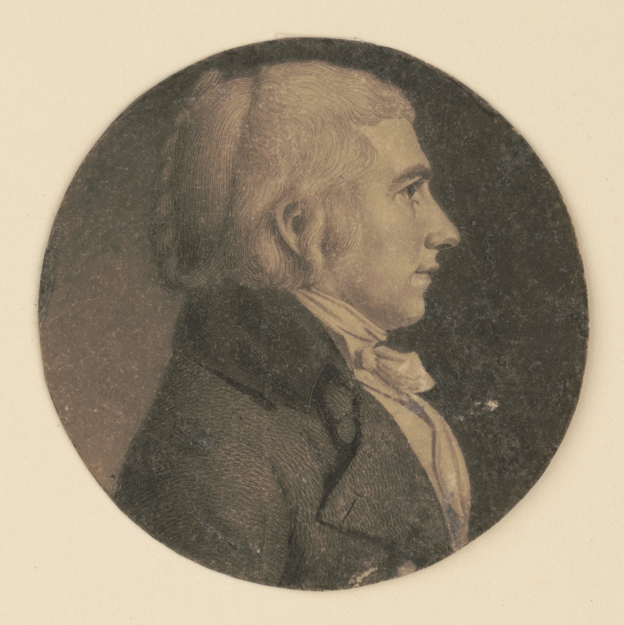 Portrait of William Henry Harrison (1773-1841) as a member of the U.S. House of Representatives from the Northwest Territory's At-large.